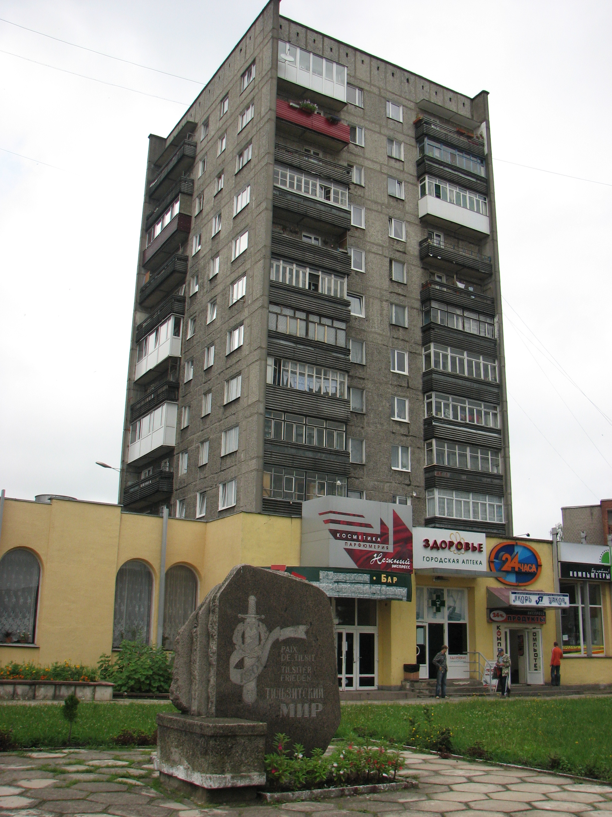 Monument of the Treaties of Tilsit (1807)